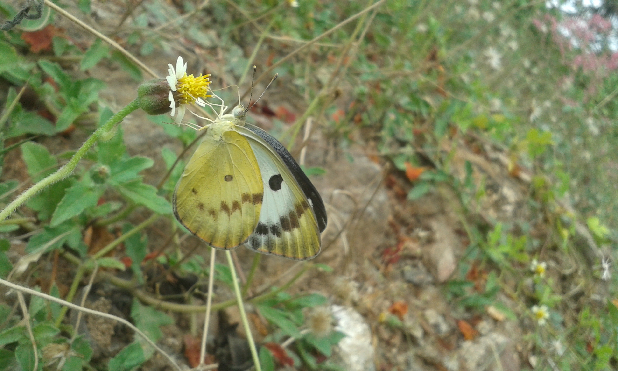 Large Salmon Arab, Female, seen in Vijayawada, Andhra pradesh